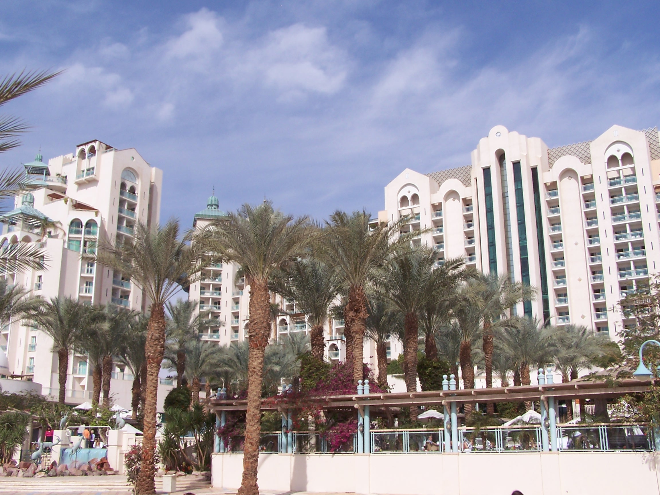 Herods Hotel in Eilat, Israel